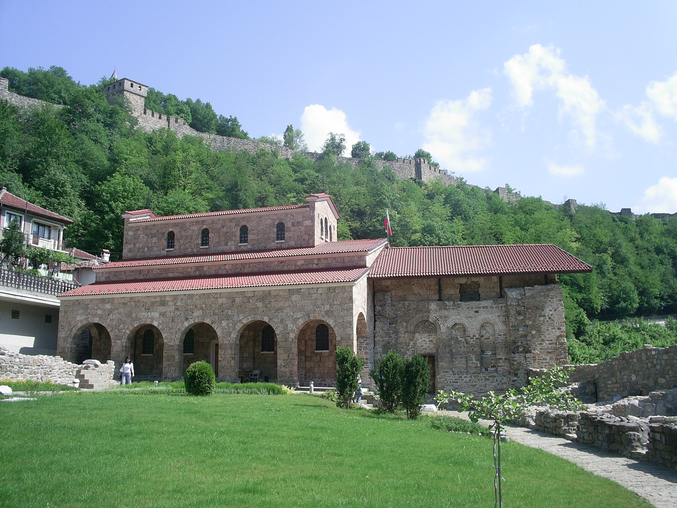 Church SS. Forty Martyrs Church in Veliko Tarnovo, Bulgaria, a Bulgarian national cultural monument.